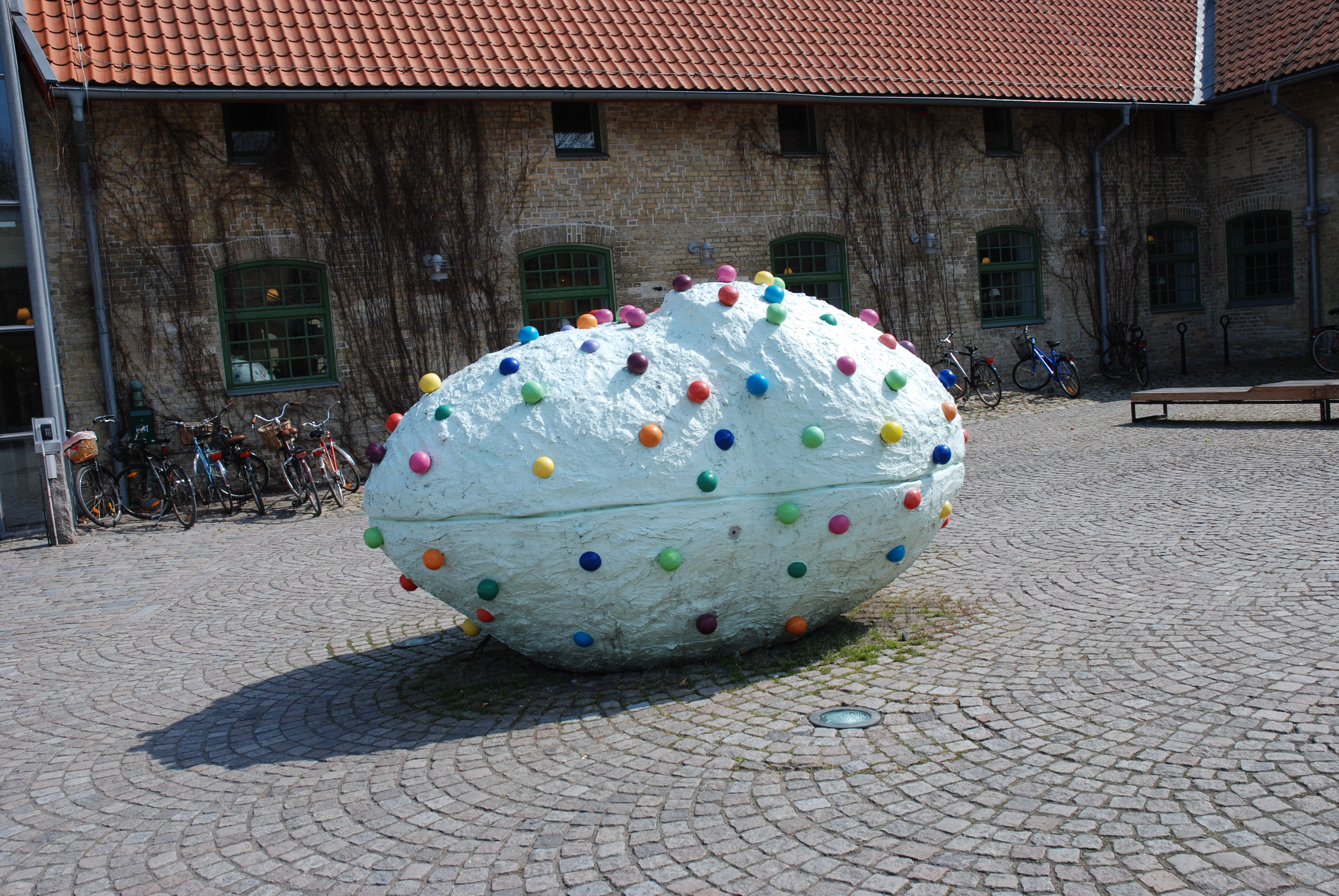 Katarina Norling´s Bobo´s hjärta (Bobo´s heart), Alnarp,Sweden